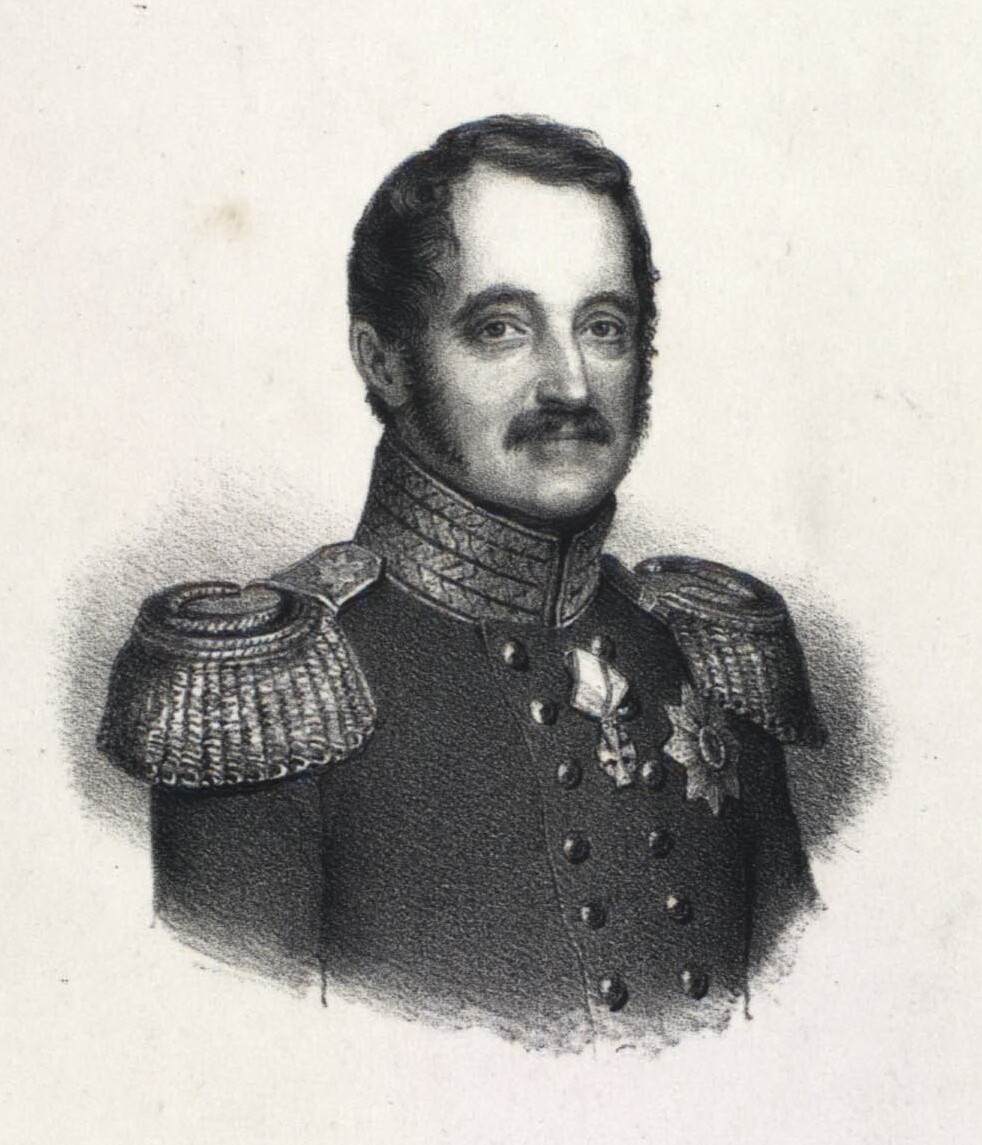 Frederik Ferdinand, Hereditary Prince of Denmark (1792-1863)